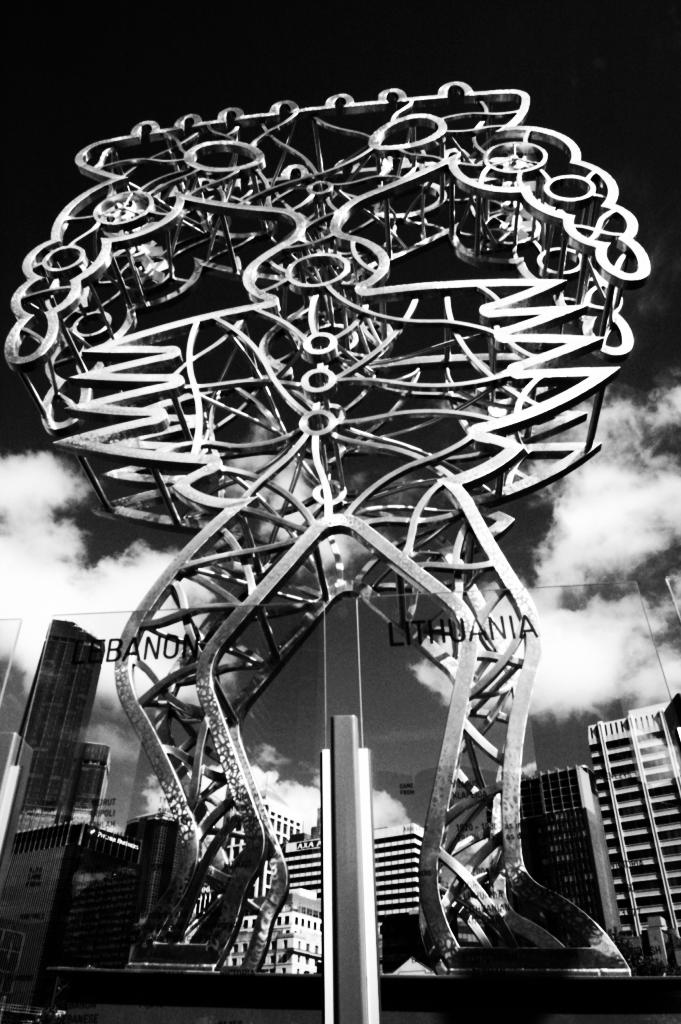 Sculptures The Travellers (2005) by Nadim Karam on Sandridge Bridge at Southbank, Victoria - Melbourne/Australia